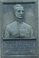 Relief of Thomas P. Dockery at Vicksburg National Military Park, by Danish-born sculptor, Victor S. Holm (1876-1935). Erected in February 1915.